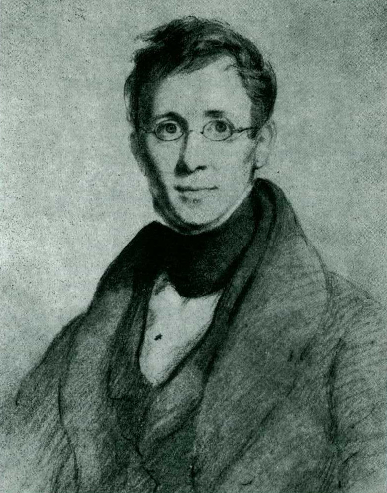 Crayon drawing of John Torrey by Sir Daniel Macnee. From the collection of Sir William Hooker, The Royal Botanic Gardens at Kew, England.